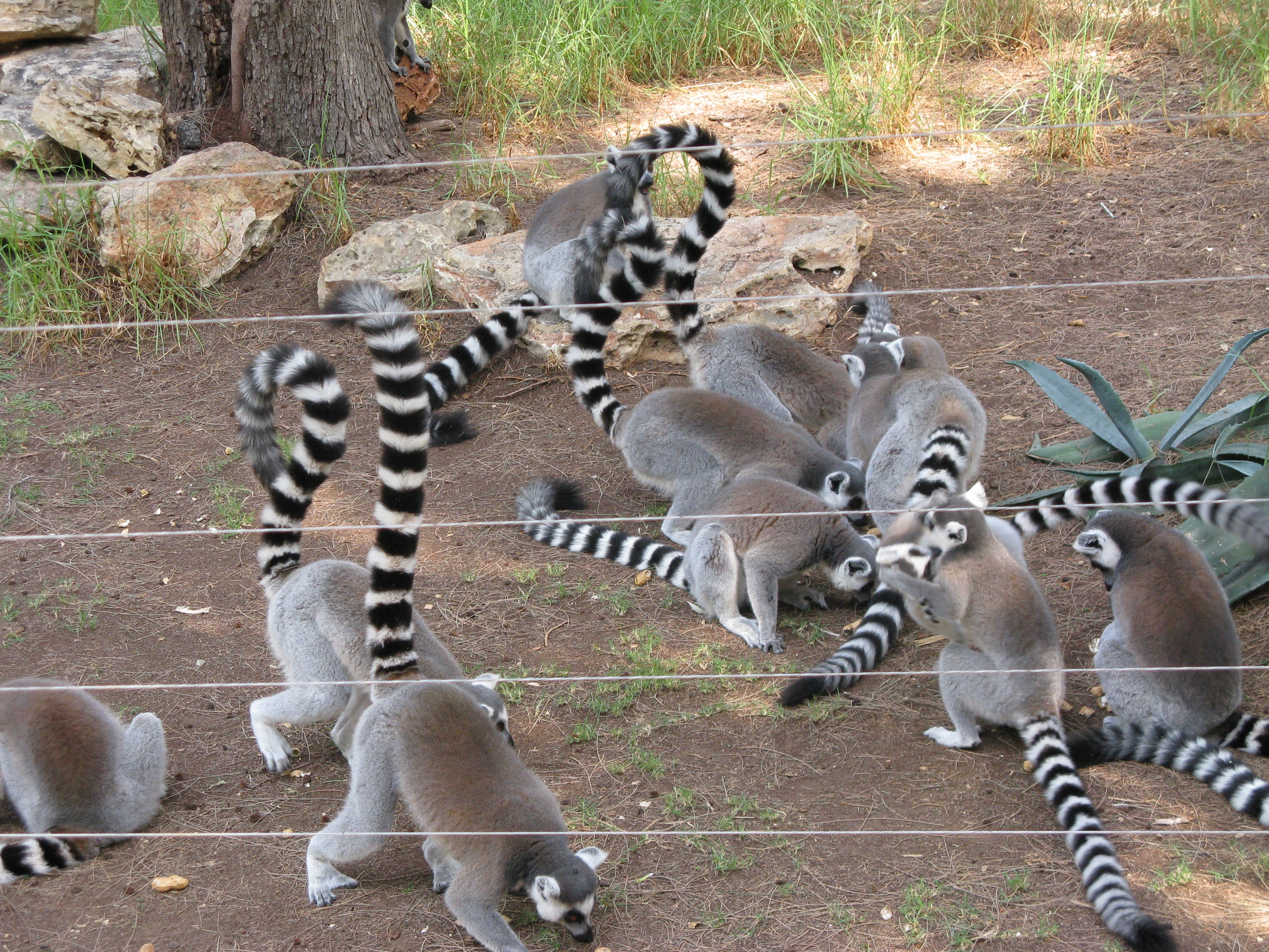 Lemur catta